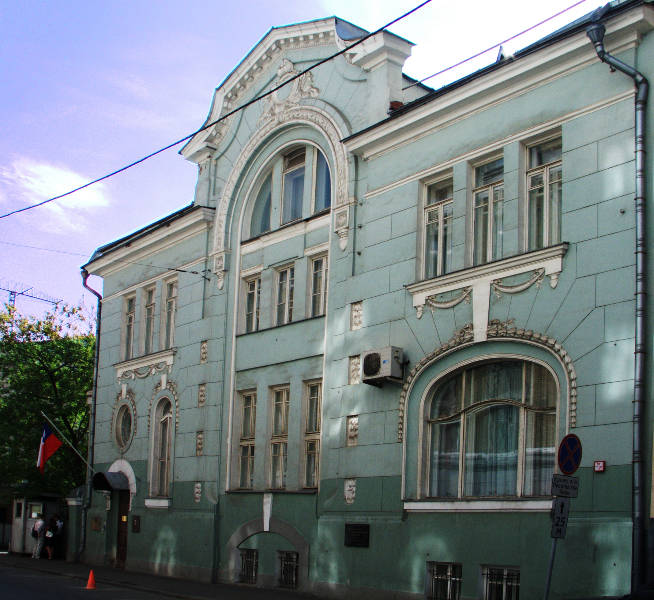 Building of the Embassy of Chile in Moscow (Denezhnyi side-street 7).